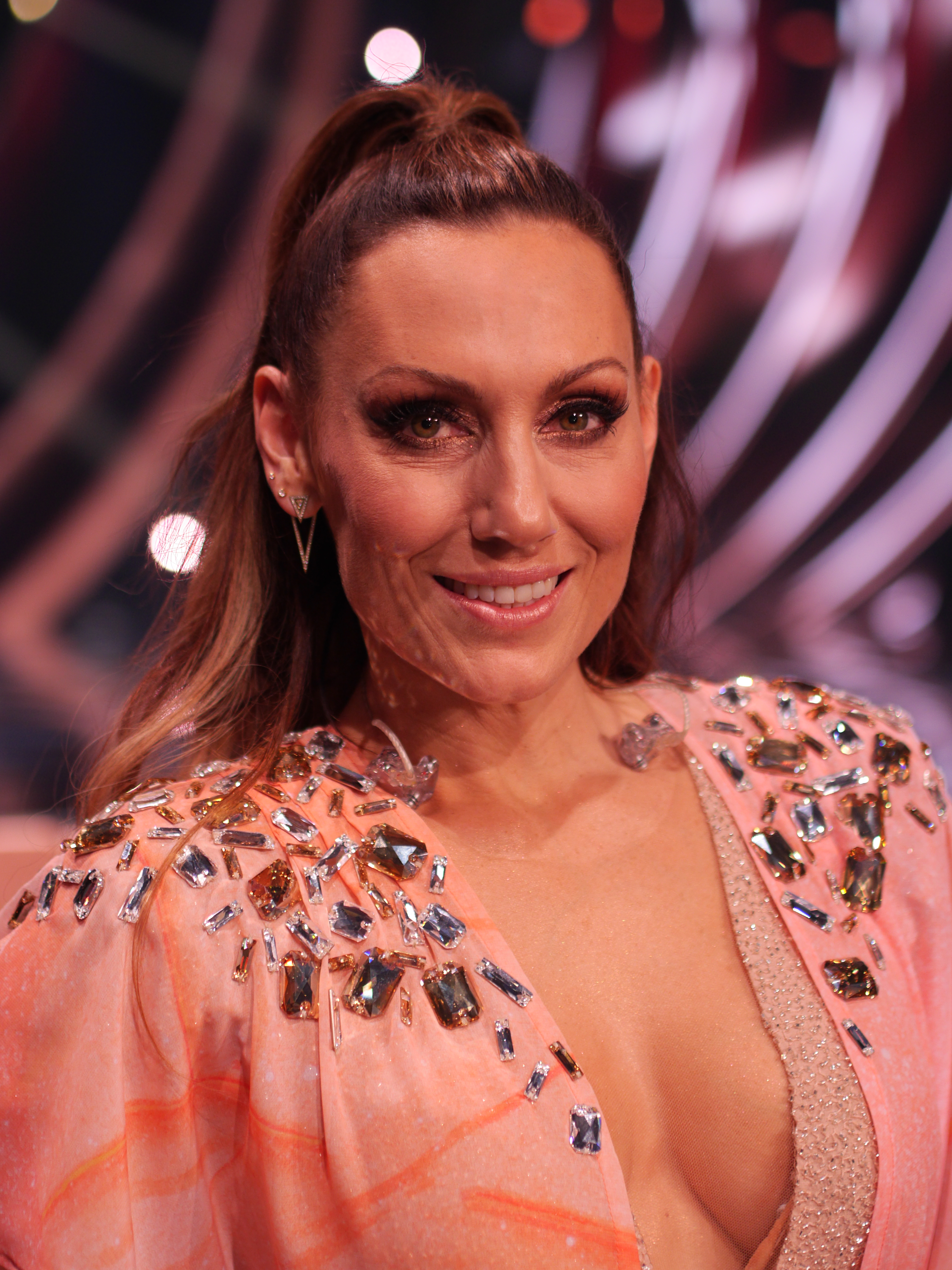 Melodifestivalen 2019, part contest 3, Leksand, Sweden